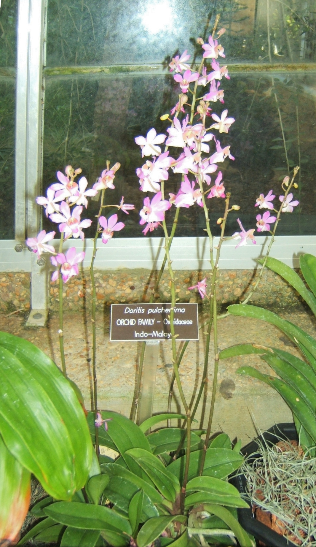 Doritis pulcherrima at the US Botanical Garden